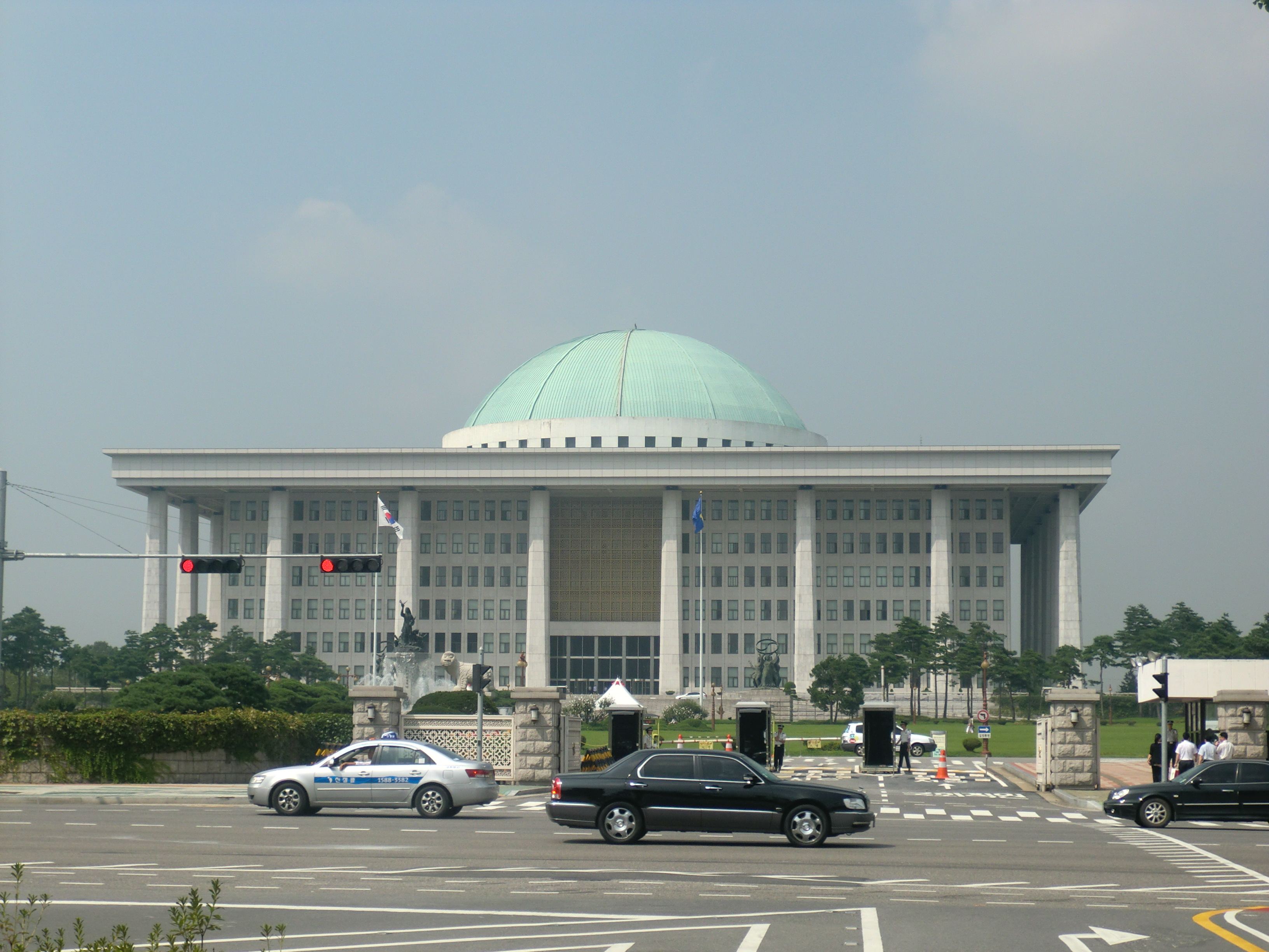 National Assembly Building of South Korea